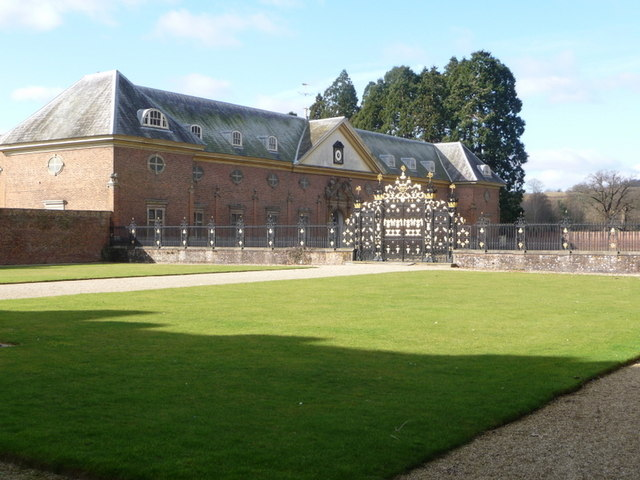 Newport: Tredegar House lawn Looking through a locked gate at the private lawn on the north side of 1182803, with 1182821 beyond. For a close-up of the rather resplendent gates in the centre of picture, see 1182837.